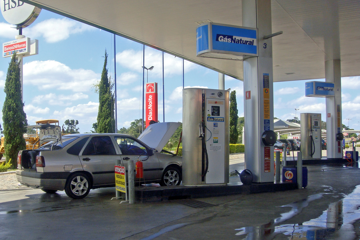 Natural gas pumps at a multifuel service station in the state of Parana, Brazil.